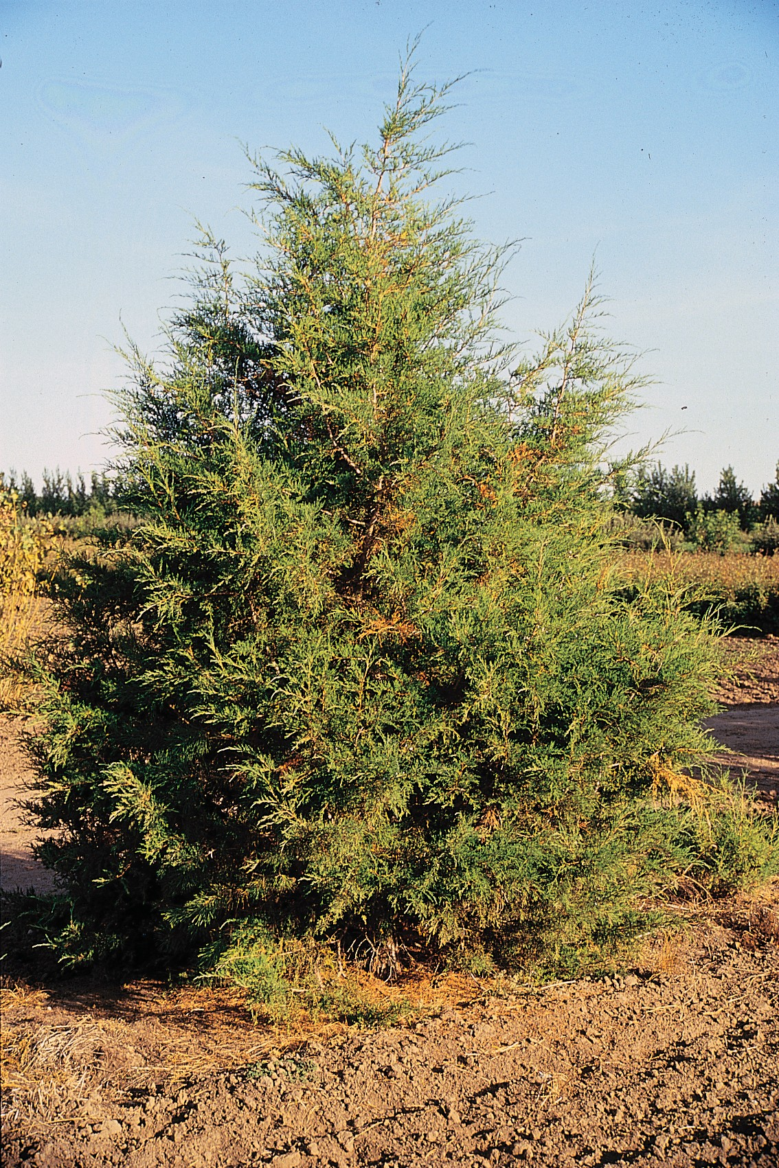 Rocky Mountain Juniper. Whole tree.